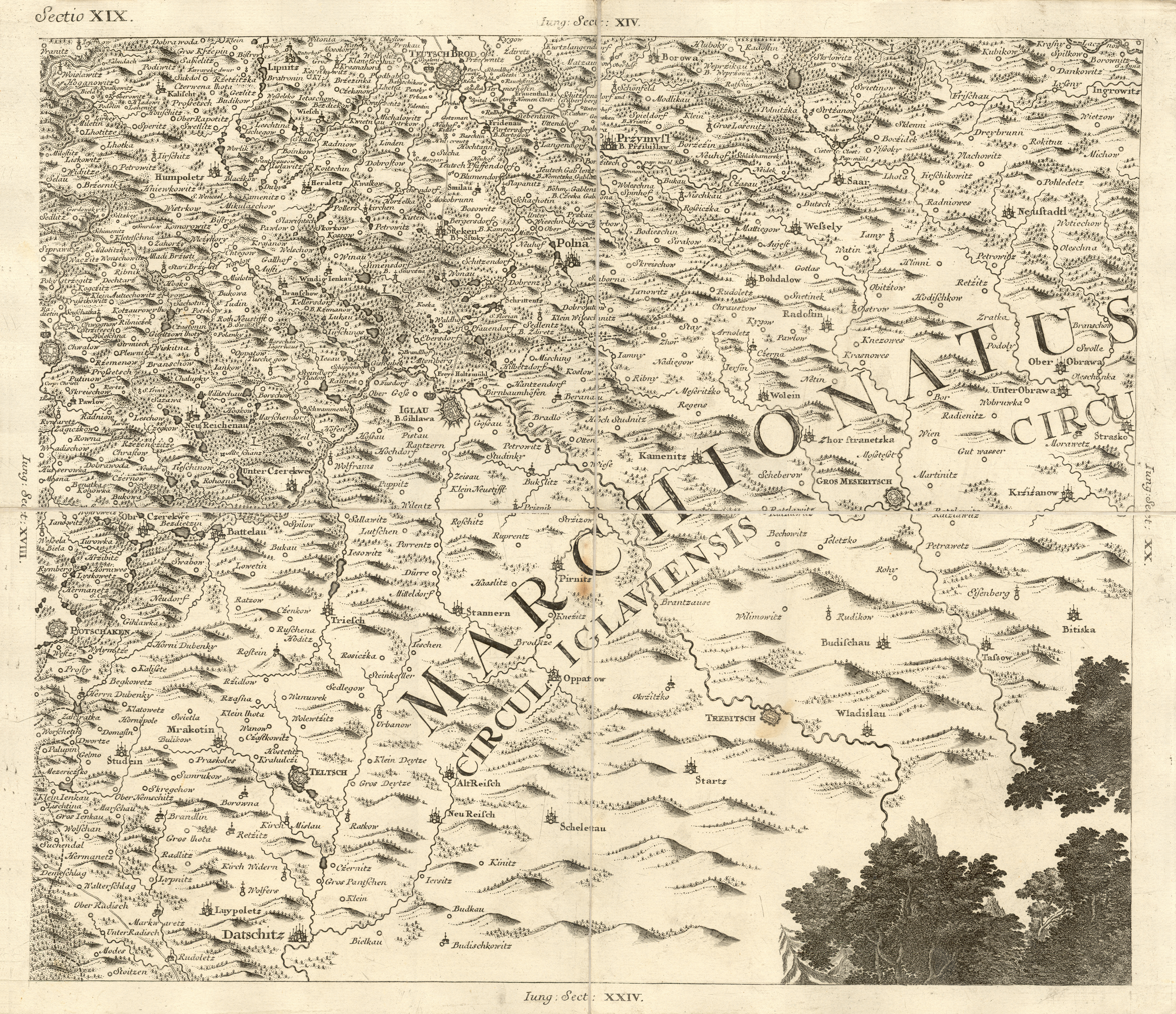 Müller's map of Bohemia.